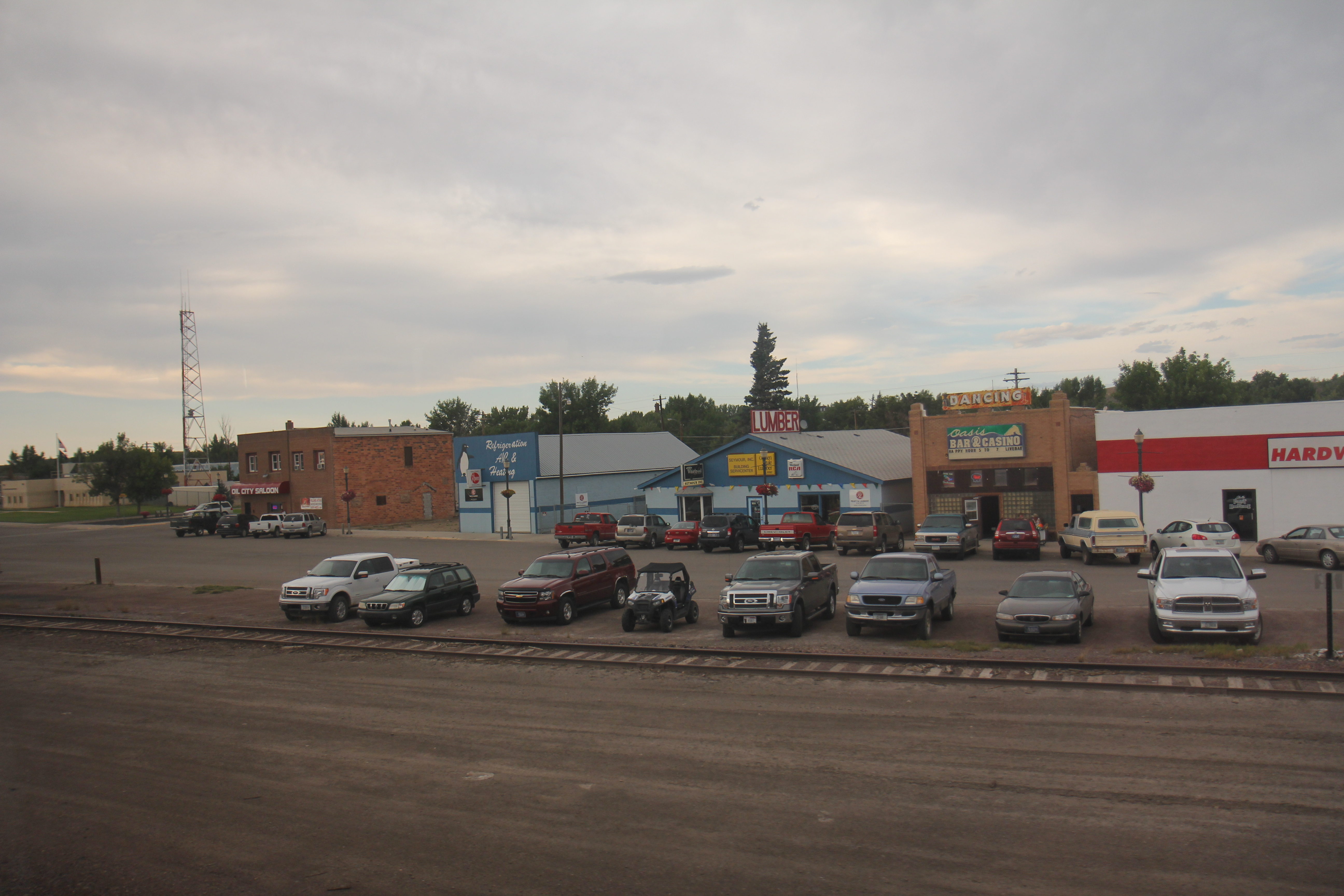 Downtown Shelby, Montana from Amtrak train.